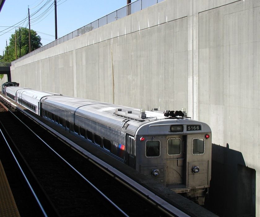 NJT Comet IB cab car passing by the Haddonfield PATCO station in the separated right of way for NJ Transit Atlantic City Line trains.